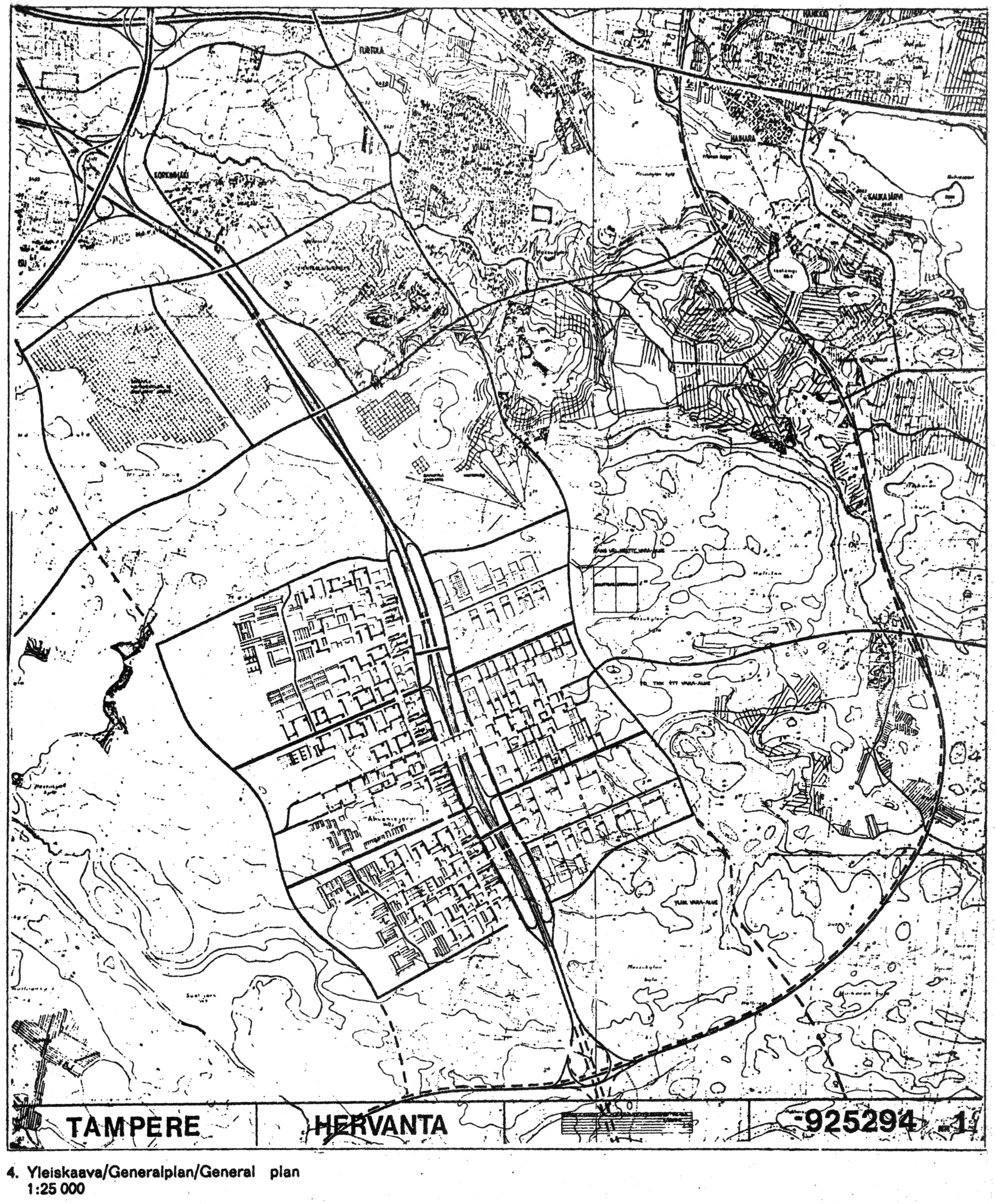 Professor Aarno Ruusuvuori won the 1st prize with this general plan in 1968.